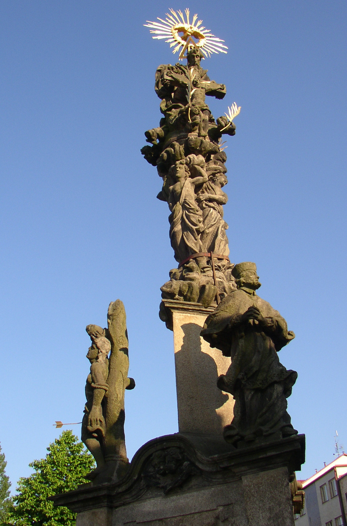 Detail of Holy Trinity column (1706) by Jakub Steinhübel in Žďár nad Sázavou, Czech Republic